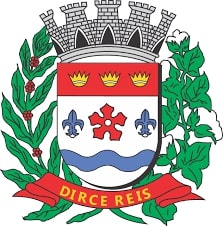 Brasão de Dirce Reis - SP